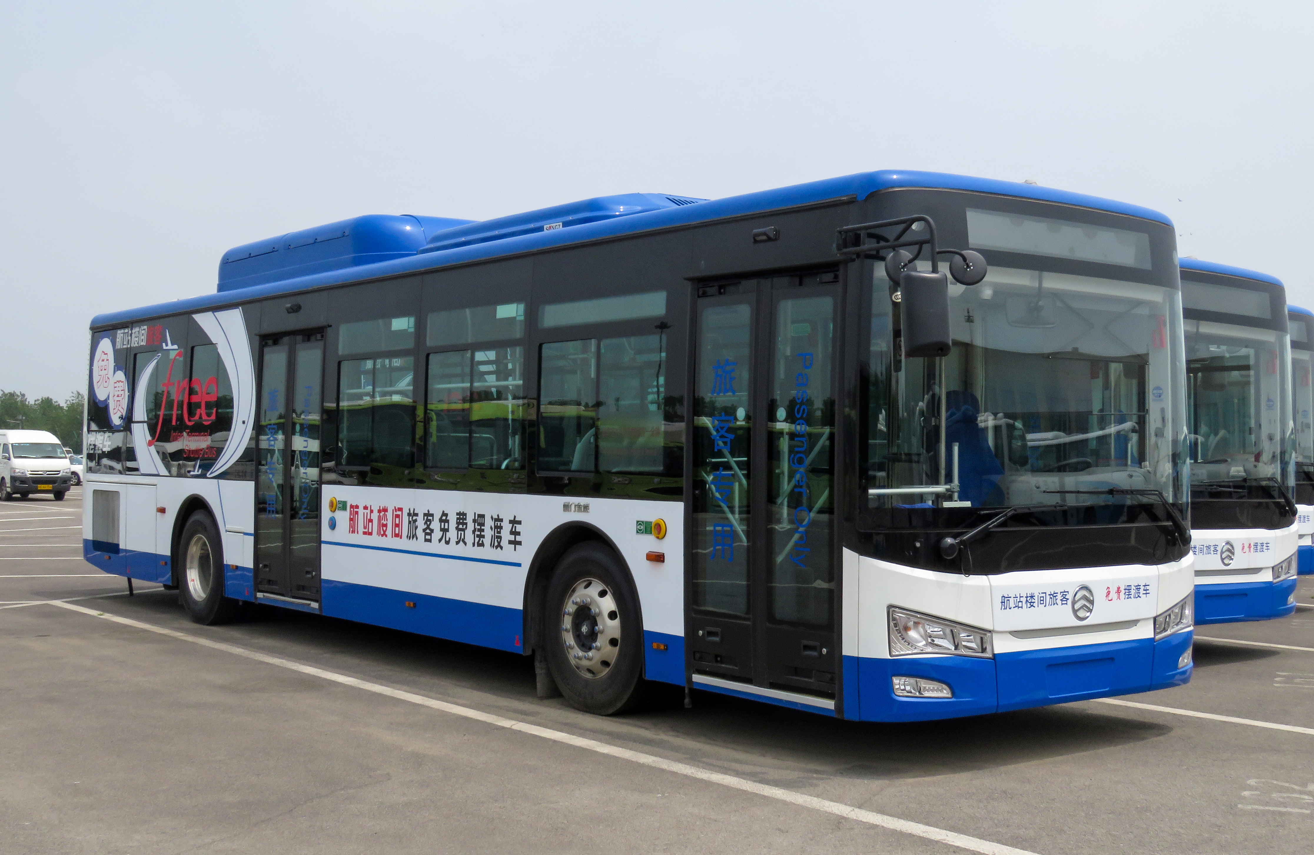 Several new XML6125JHEVG5CN1's, without registration, are here at the crew parking lot.